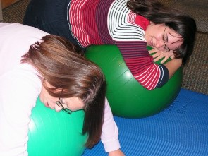 Doulas being trained to use Birthing Ball